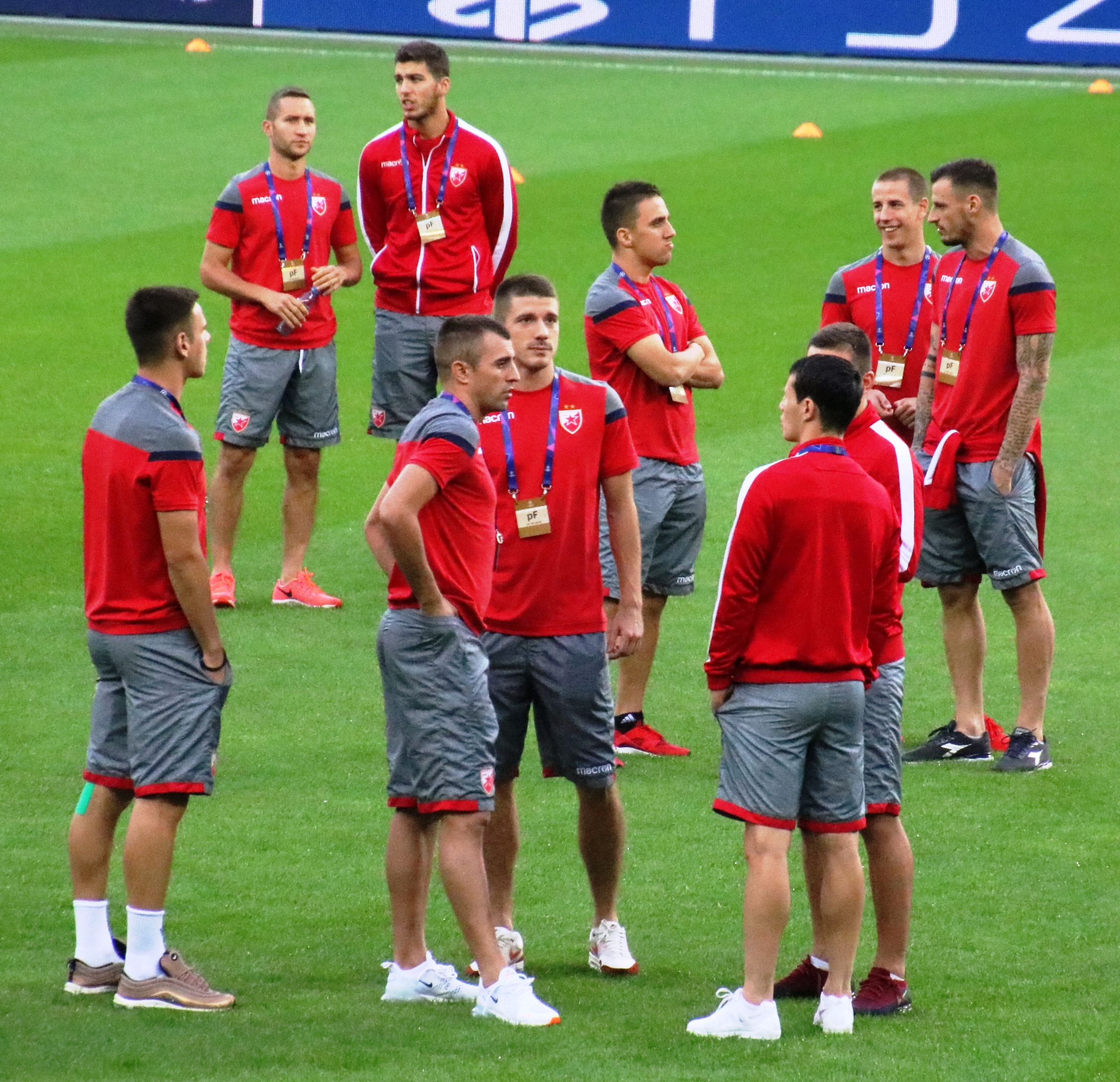 CL play off 2nd leg